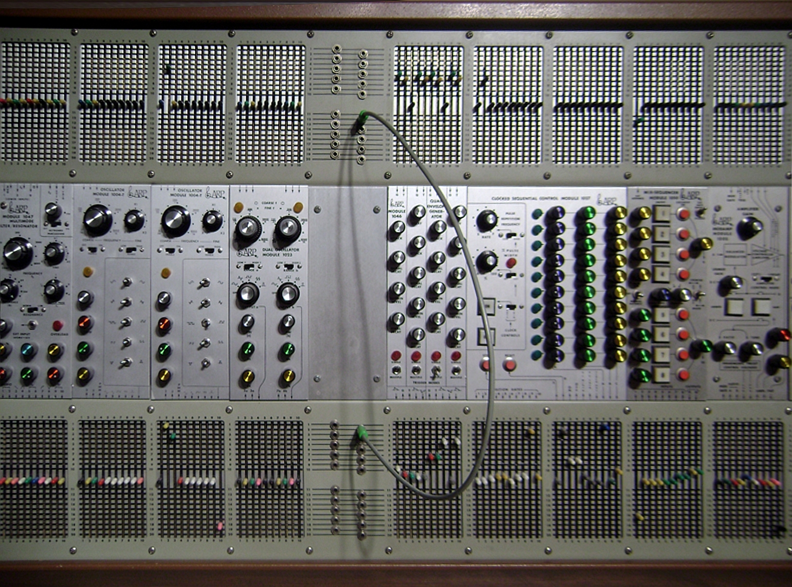 This is the ARP 2500 found in the last moments of the movie Close Encounters of the Third Kind. It is an actual synth however the movie had it housed in a white case at the time. Got a demo of it; guess what was the patch stored XD More photos to come... Visited the Cantos tonight and got a lovely tour of the facilities. Took a lot of pictures & videos. The tour was conducted by Brandon Smith.